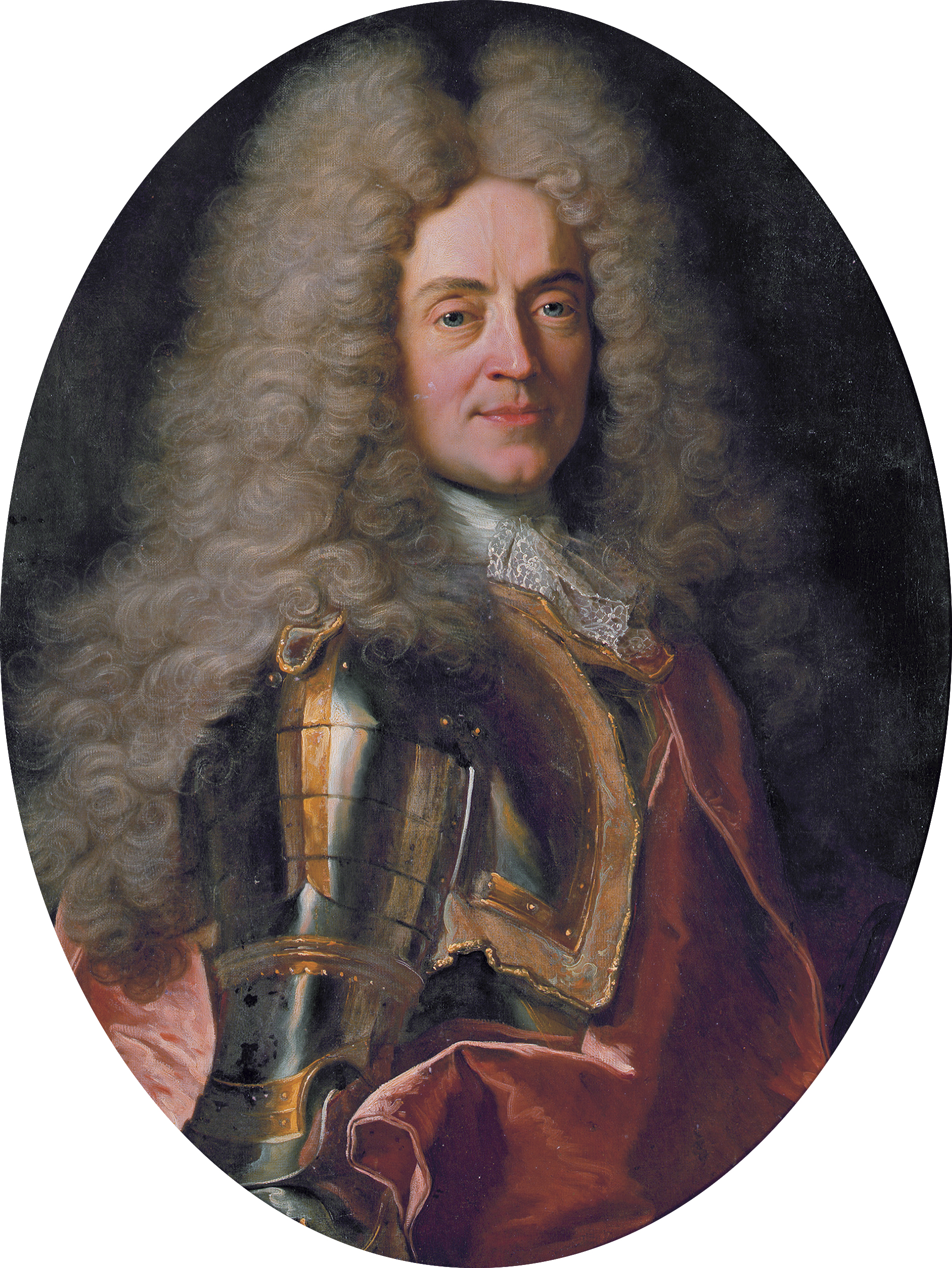 Anthony Ulrich, Duke of Brunswick-Wolfenbüttel (1633-1714)